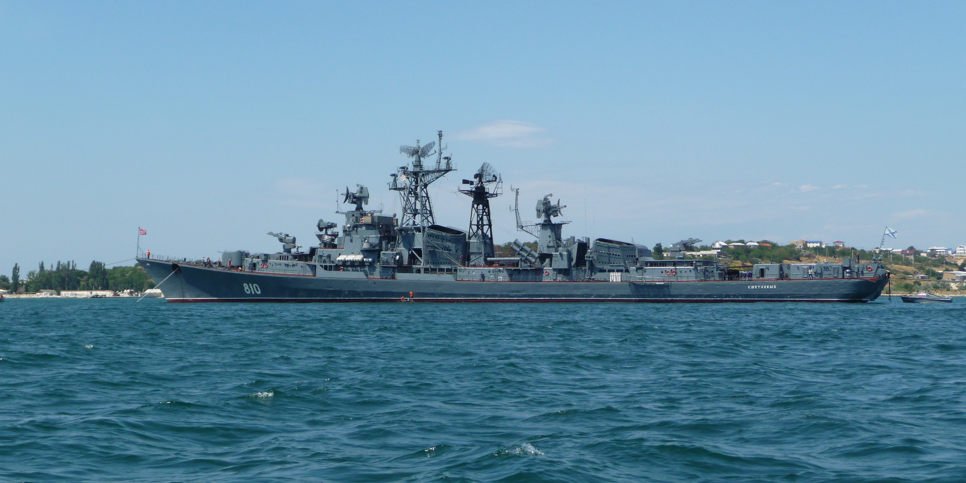 The Russian project 01090 guard ship (fomer project 61 large ASW ship, Kashin class destroyer) Smetlivy. Photo taken in Sevastopol bay from a boat.